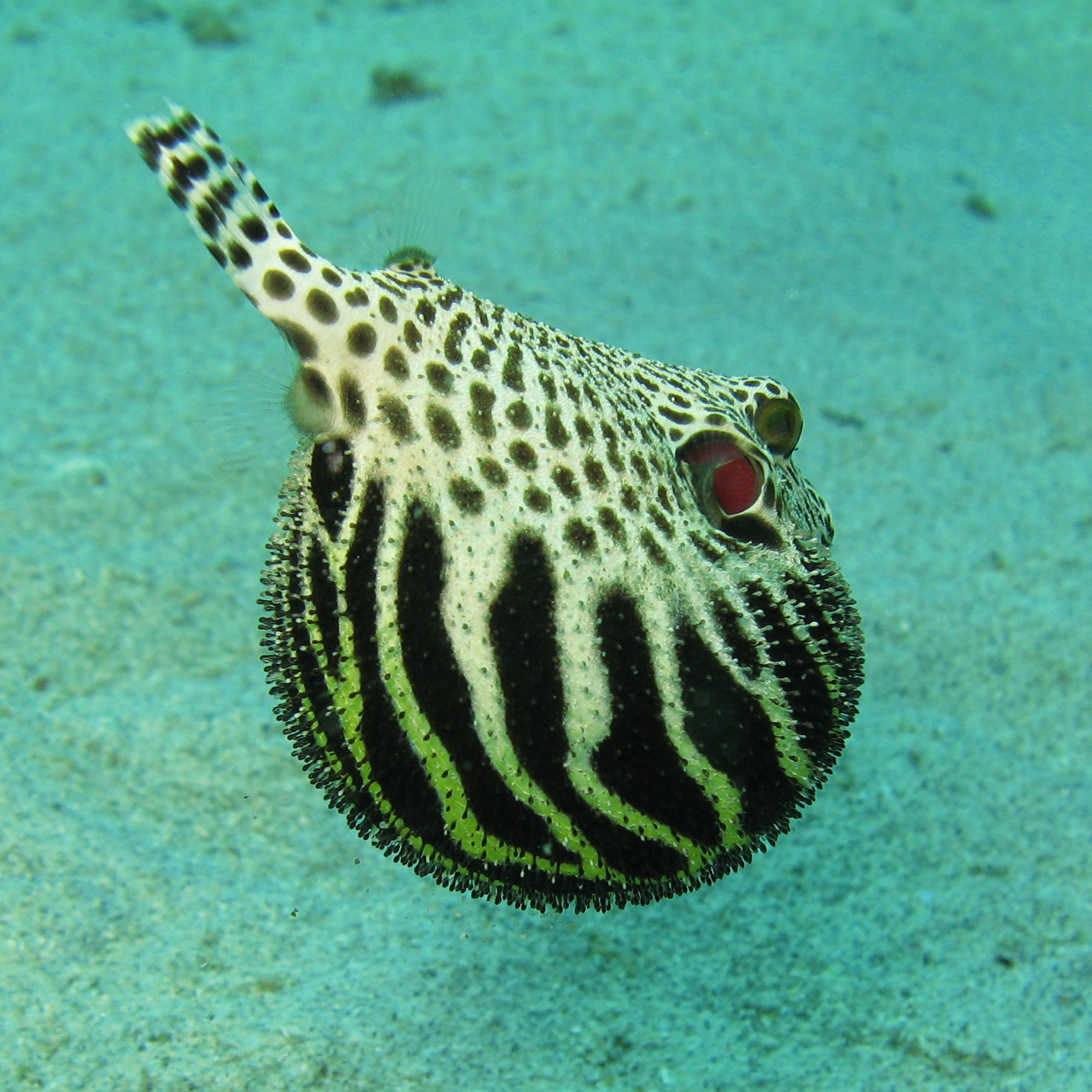 Mactan Cebu, Philippines Arothron stellatus ? モヨウフグの幼魚？